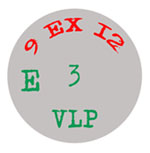 Box coding on Dabbawala boxes